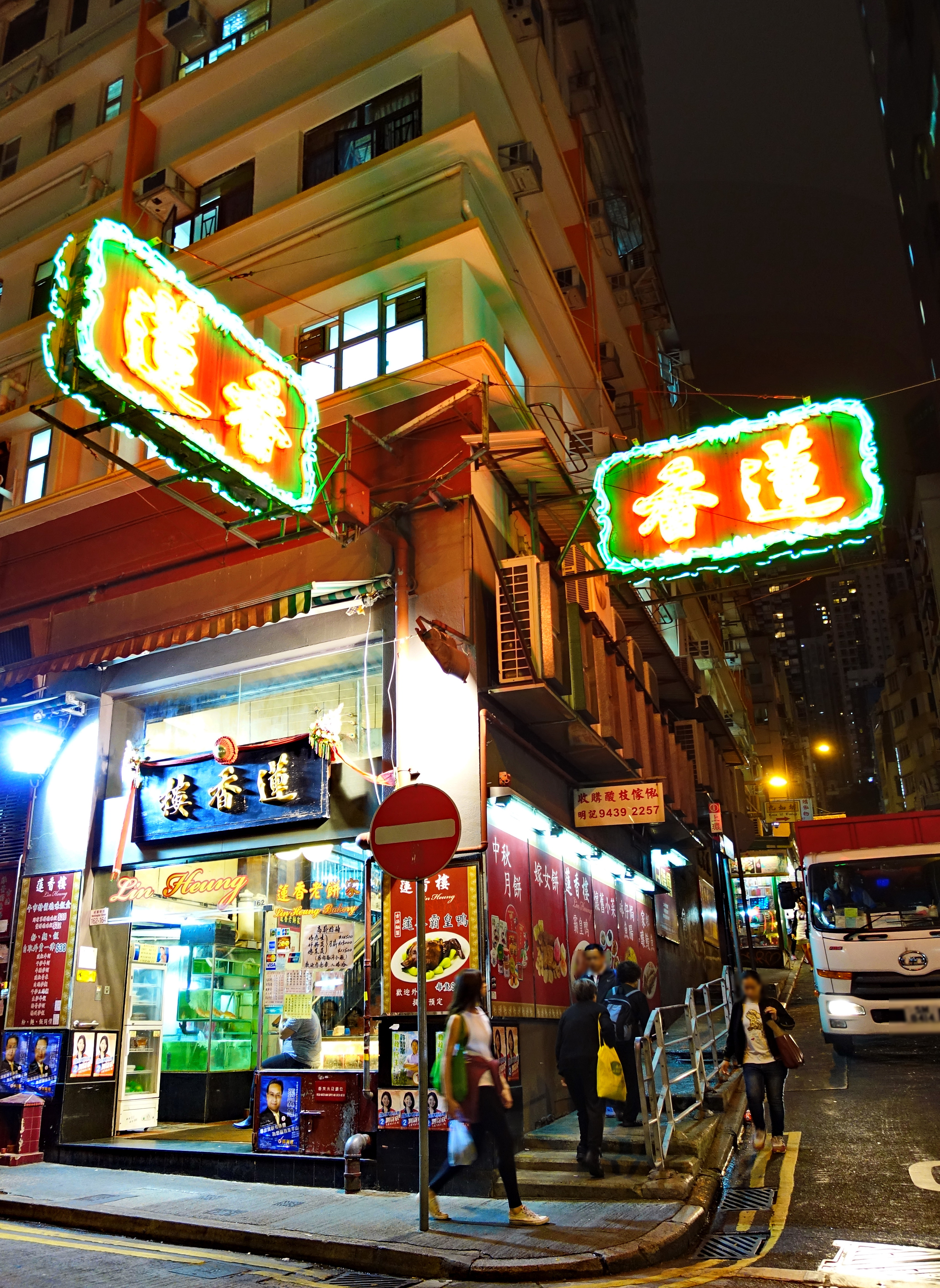 Lin Heung Tea House at night, Hong Kong.